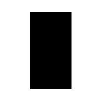 The totemic simbol of a cluster